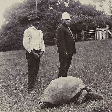 Photograph of St Helena resident tortoise Jonathan around 1900, with a Boer War prisoner.